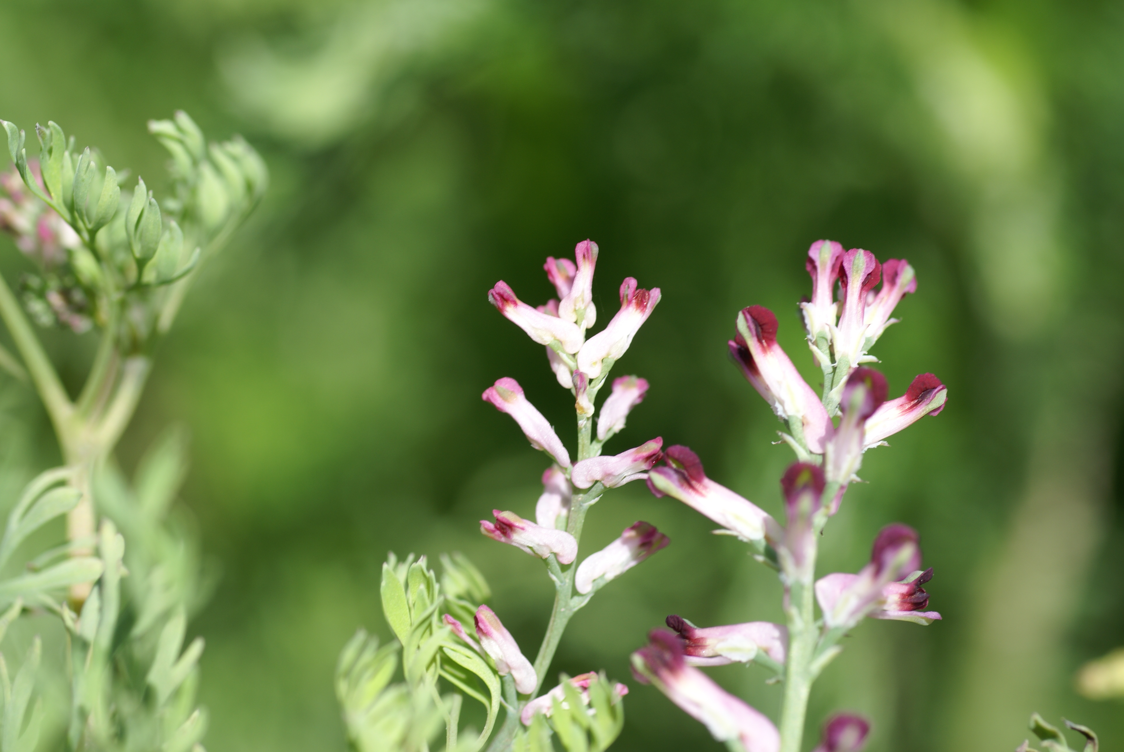 Flowers of Fumaria vaillantii (left) and Fumaria officinalis right, found a few hundred meters north of Skokloster castle in Sweden.